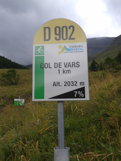 Mountain pass cycling milestone at the Col de Vars in France ascending from Jausier